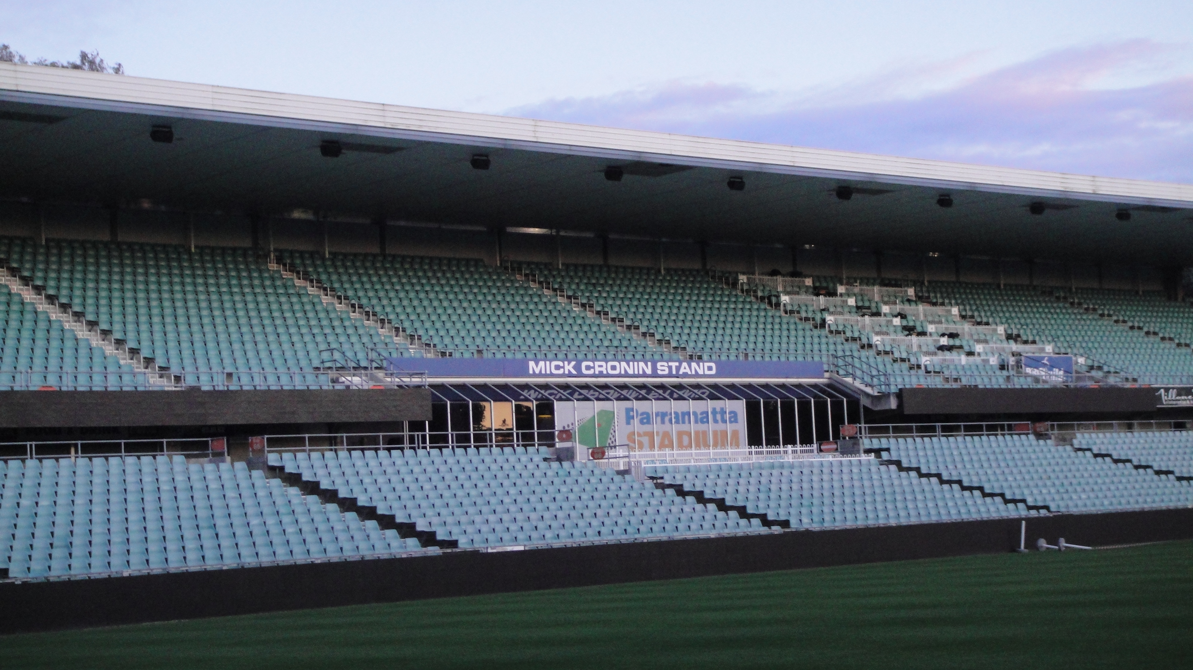 Mick Cronin Stand at Parramatta Stadium shot in late afternoon.